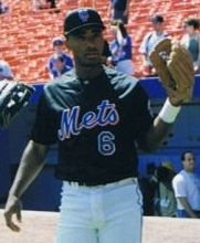 Mike Piazza